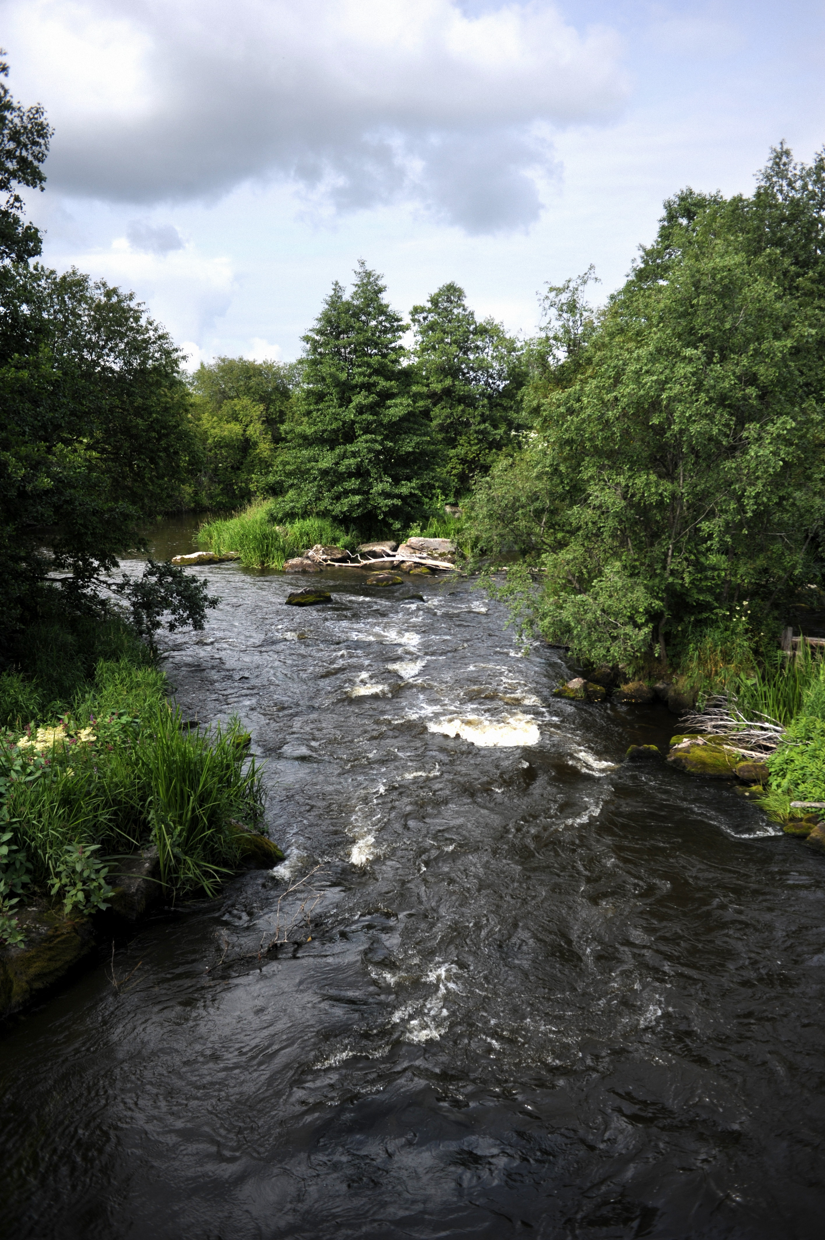 Rokkalanjoki in Kaijala (Tokarevo) 14.7.2015